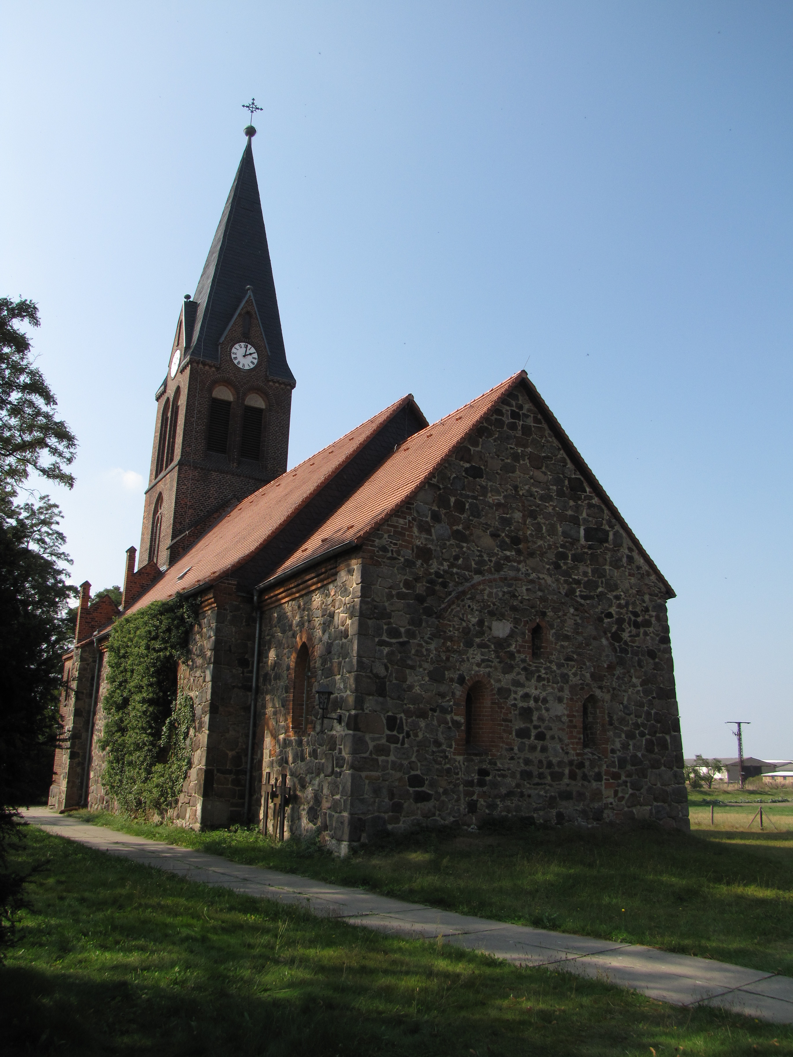 Rural church of Borgisdorf, Gem. Niederer Fläming, Lkr. Teltow-Fläming, Brandenburg, Germany, view from east